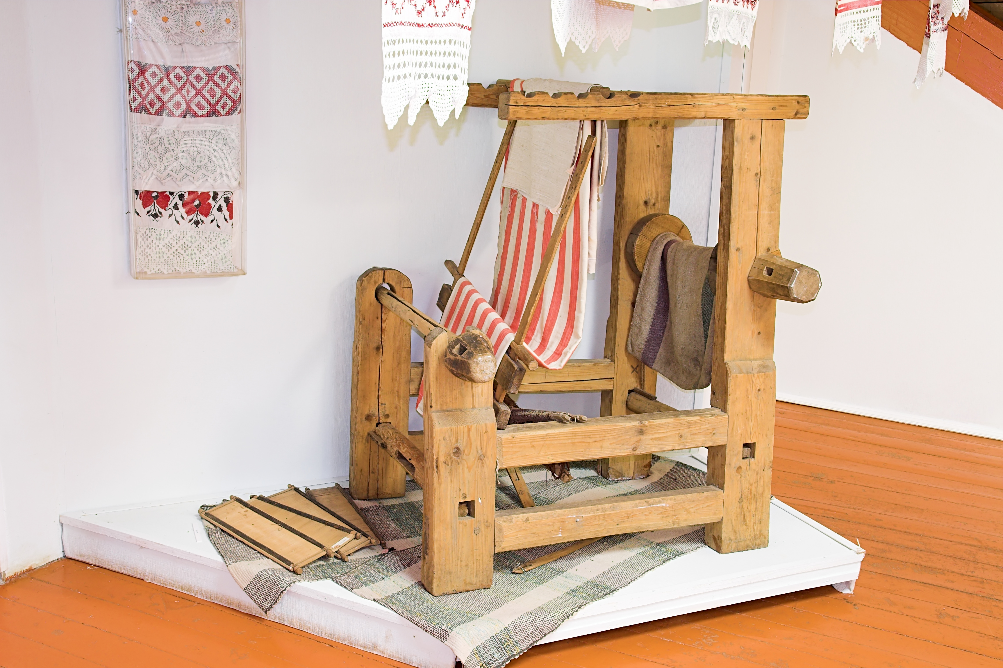 Hand loom. «Ganshin Manor» museum (Gorki Pereslavskie village, Pereslavl district of Yaroslavl oblast, Russia)